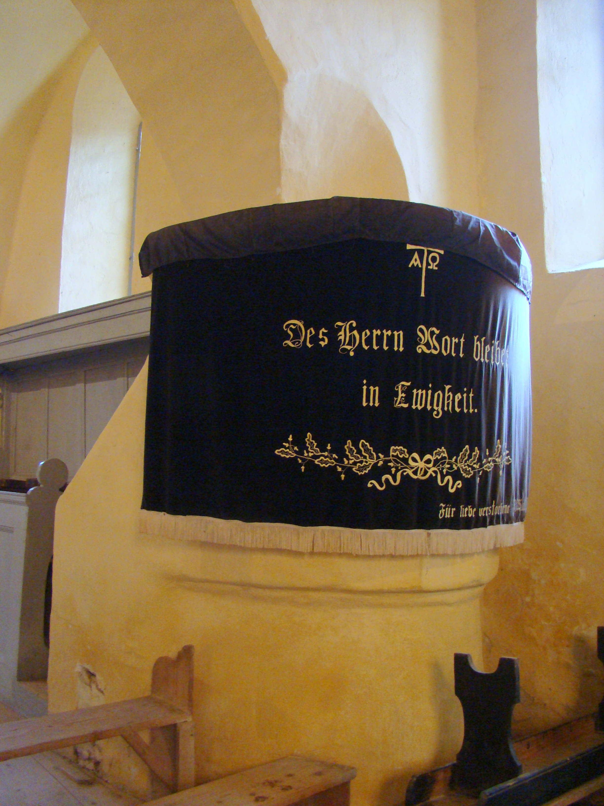 Lutheran church in Seleuș (Zagăr), Mureș county, Romania